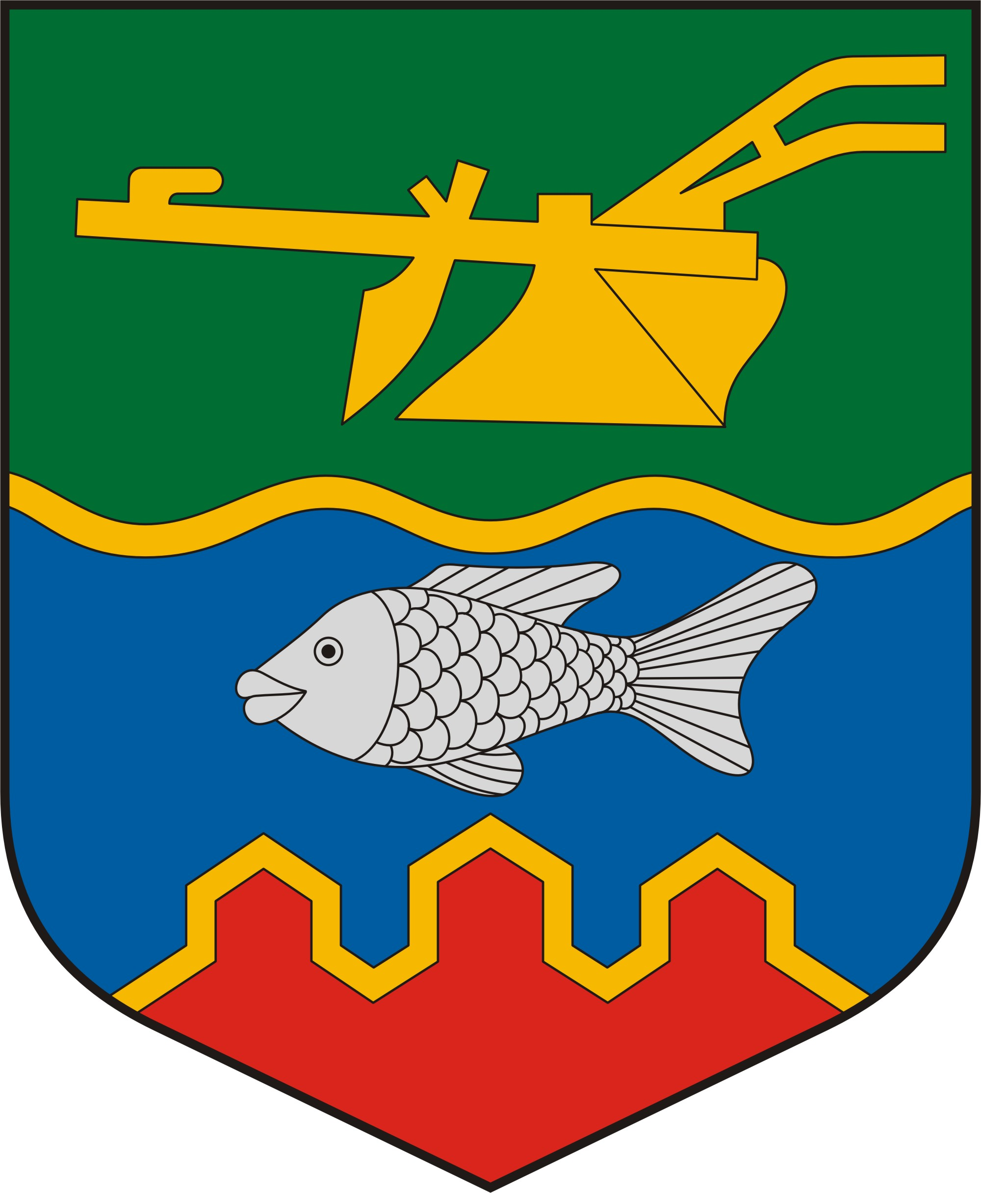 Coat of arms of Tömörkény, Hungary